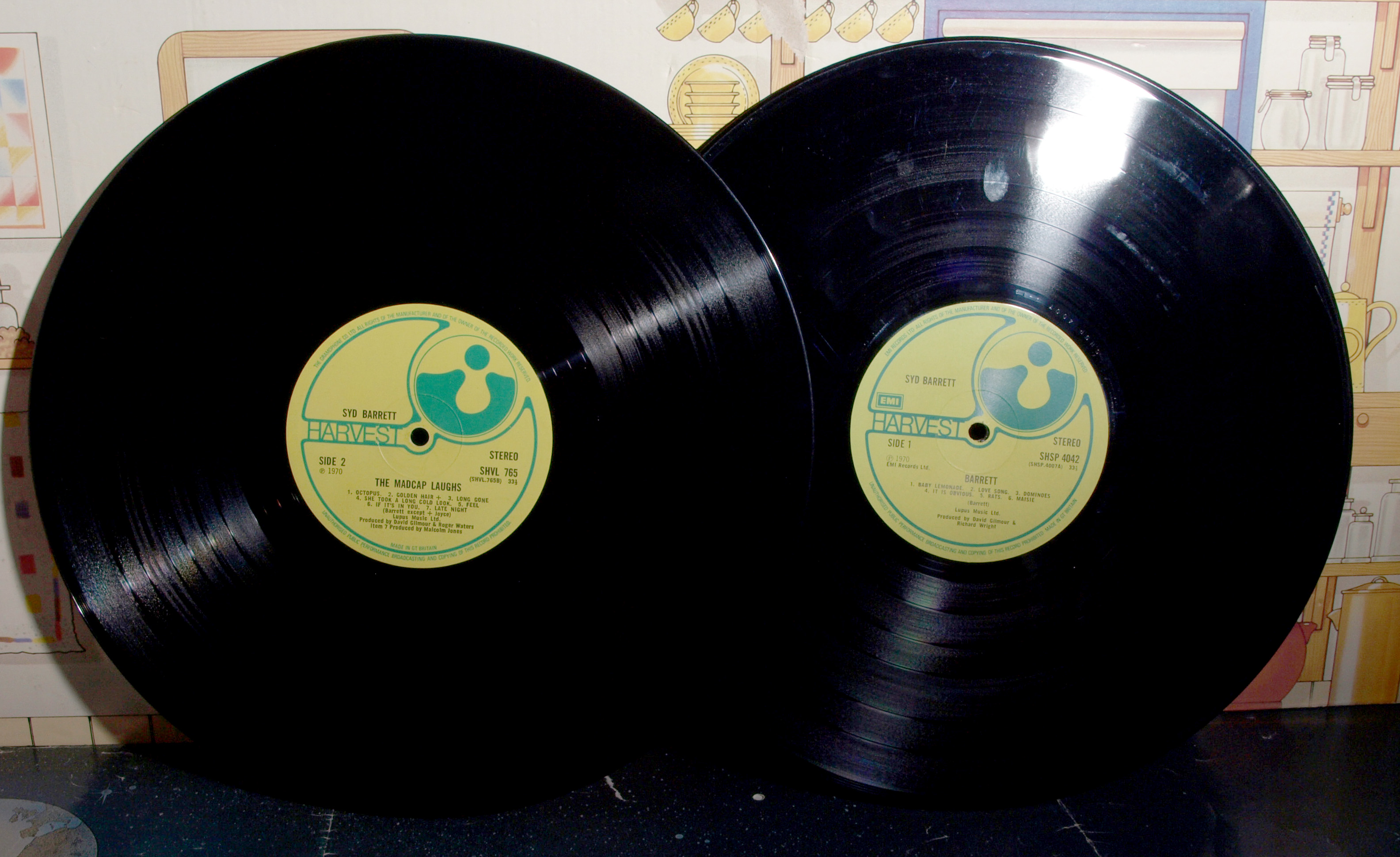 syd barrett, double lp, the madcap laughs, barrett solo album,.